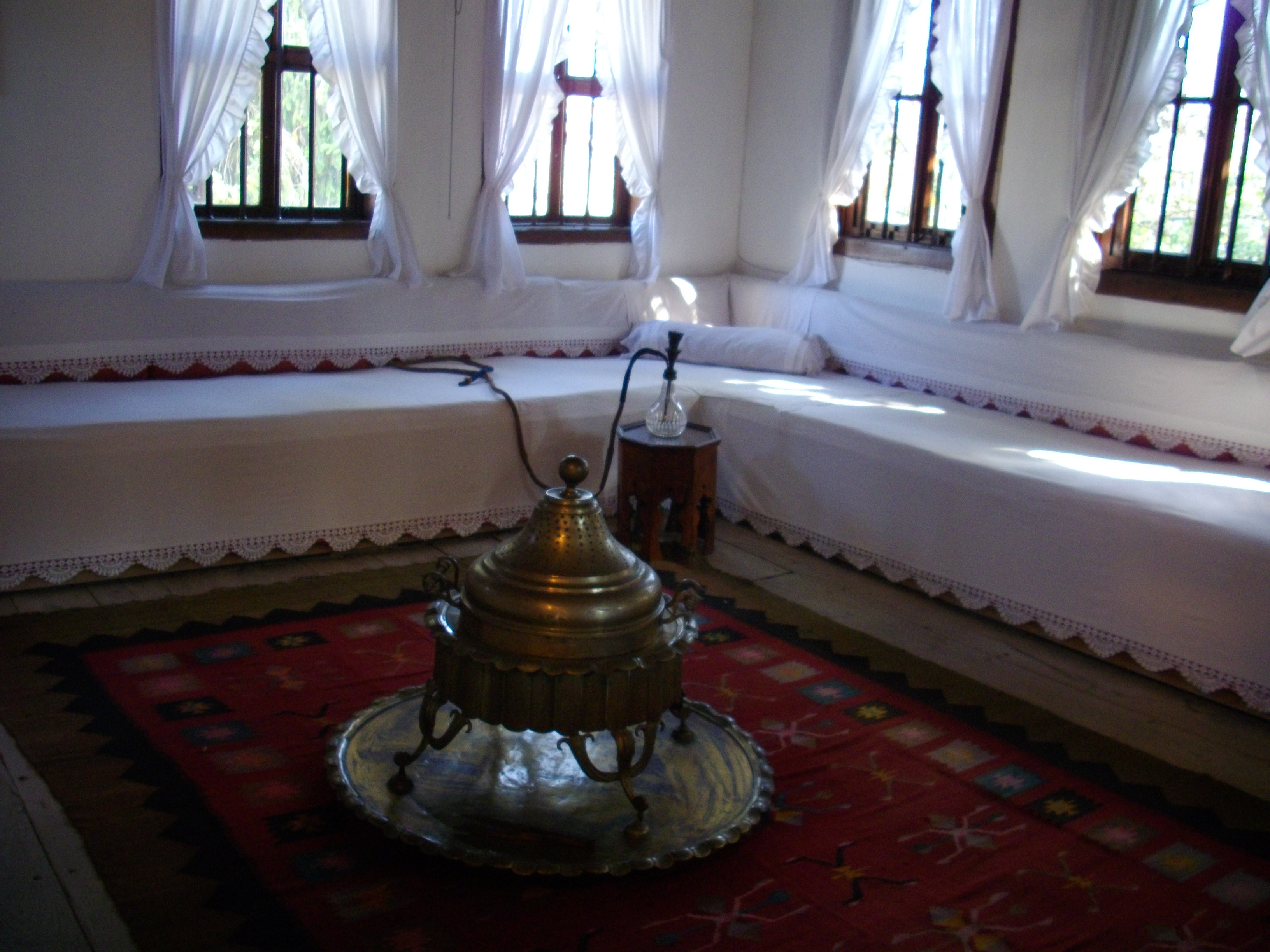 Стая в къща-музей "Лайош Кошут"